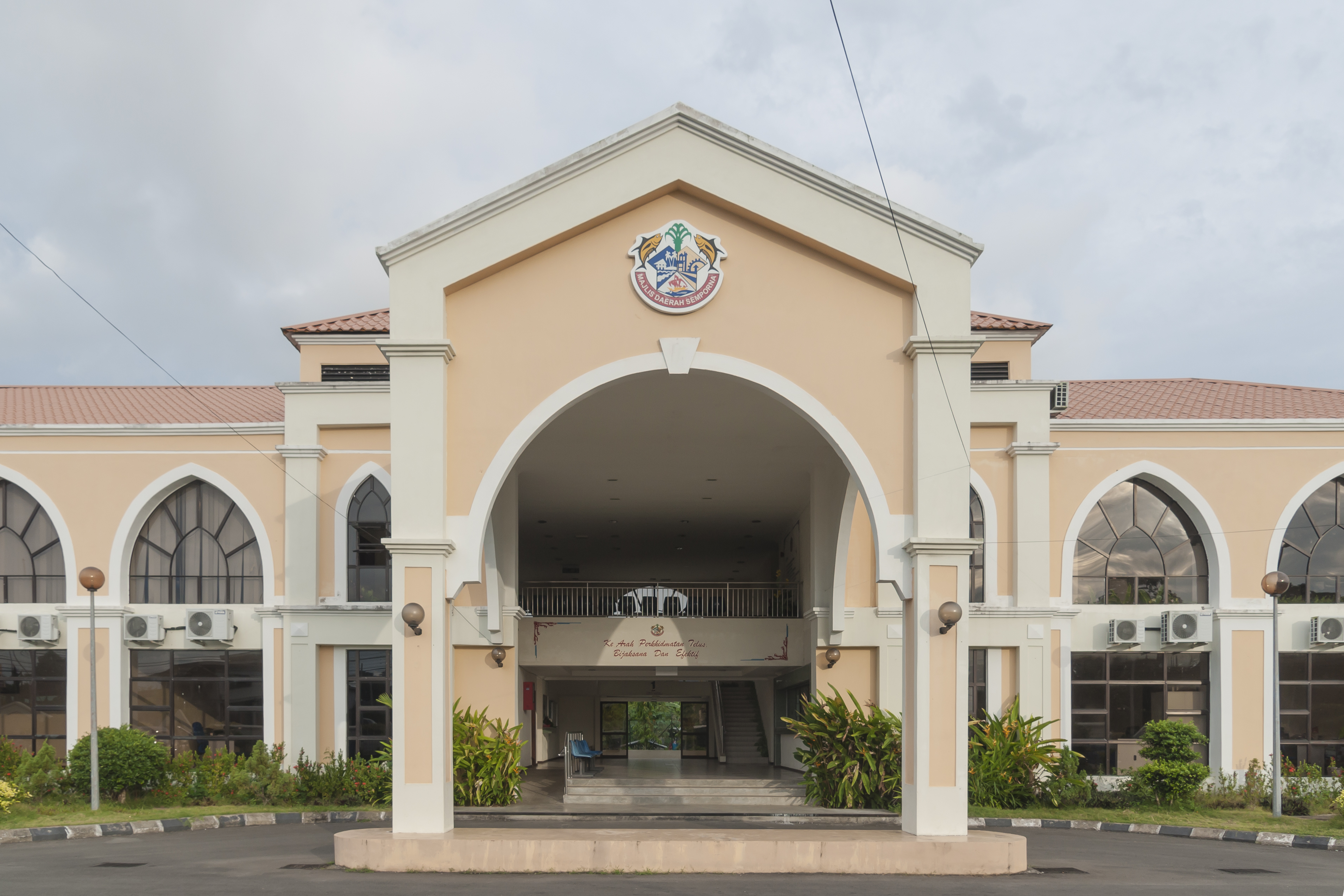 Semporna, Sabah, Malaysia: Semporna District Council (Majlis Daerah Semporna)